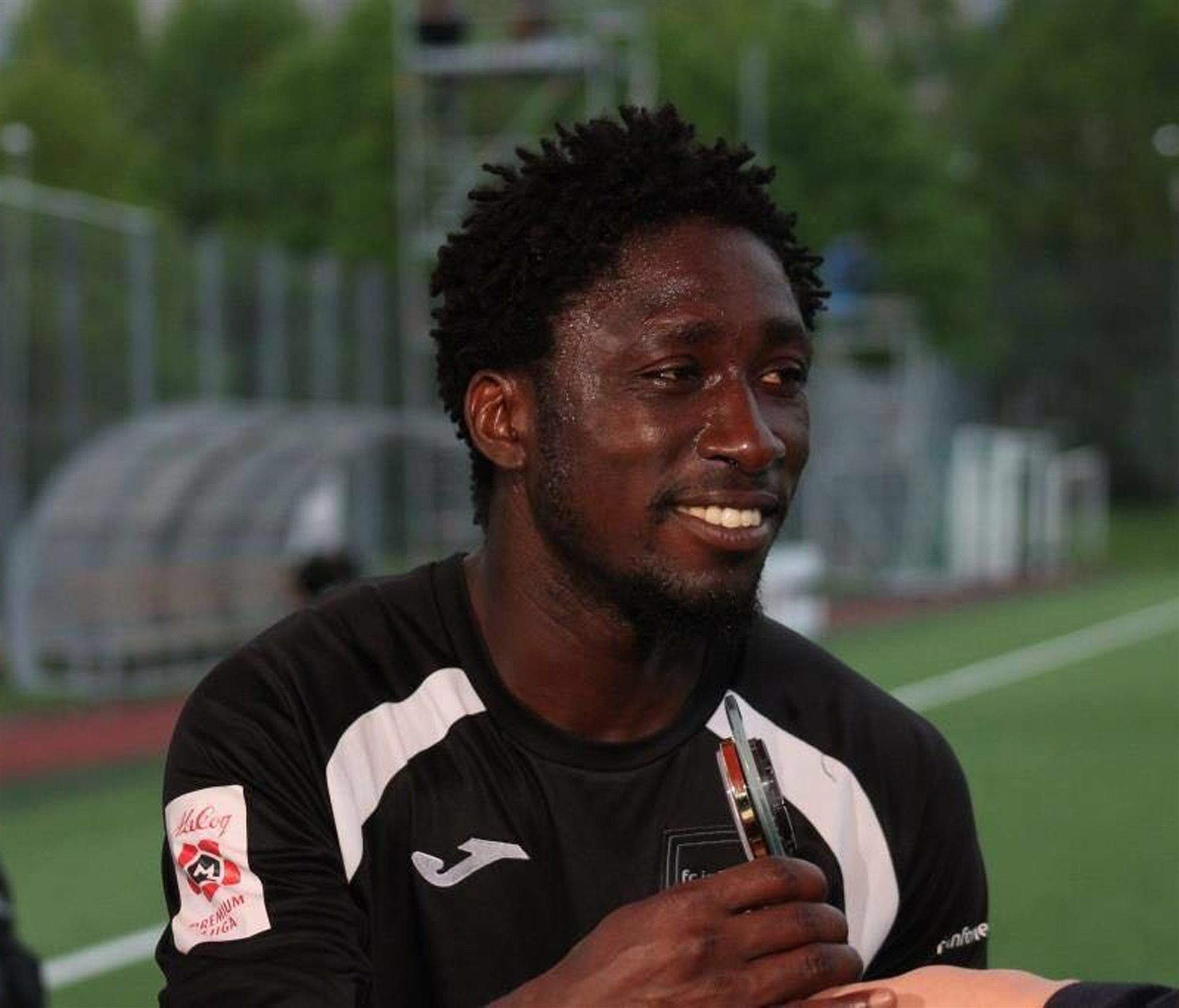 Photo of Infonet FC player Ofosu Appiah